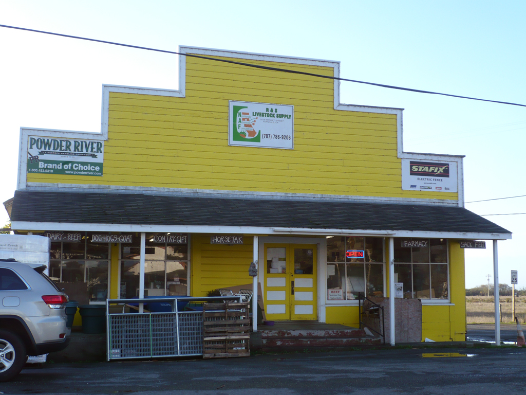 Arlynda Corners, California; view looking West at corner of Market and Port Kenyon Roads. This was historically a crossroads village between Ferndale and Port Kenyon, California.